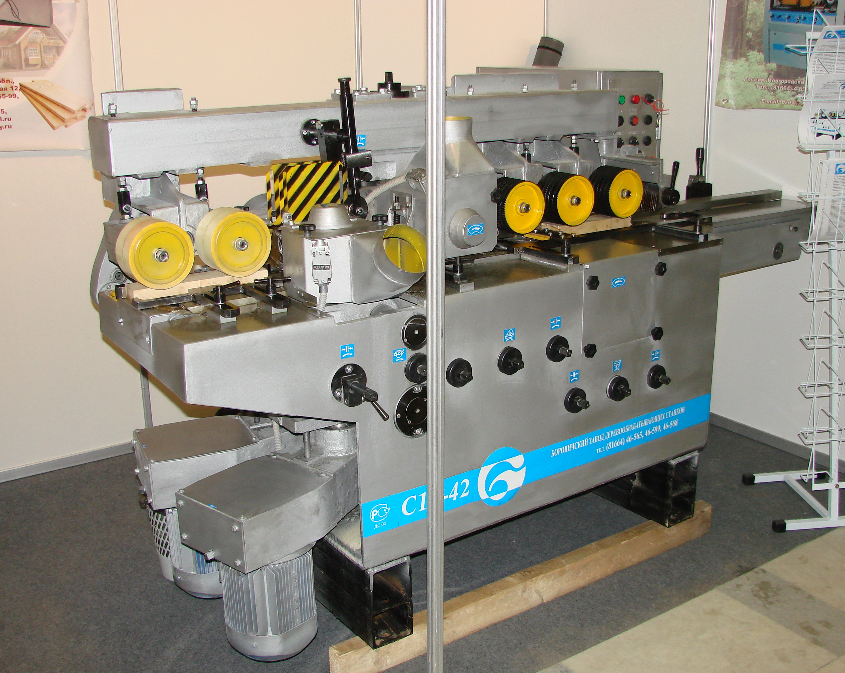 Russia, Vologda, Exhibition-Fair «Russian forest», Woodworking machine